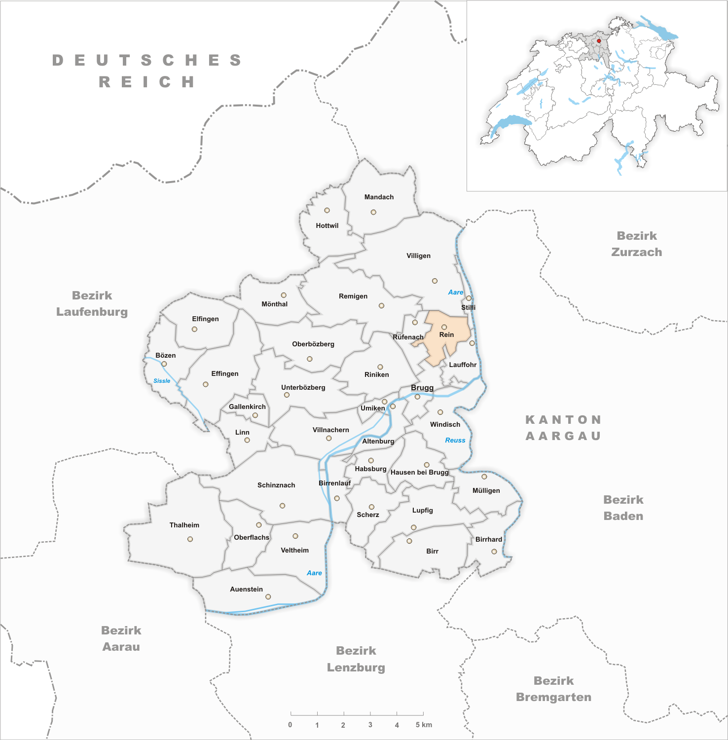 Municipality Rein